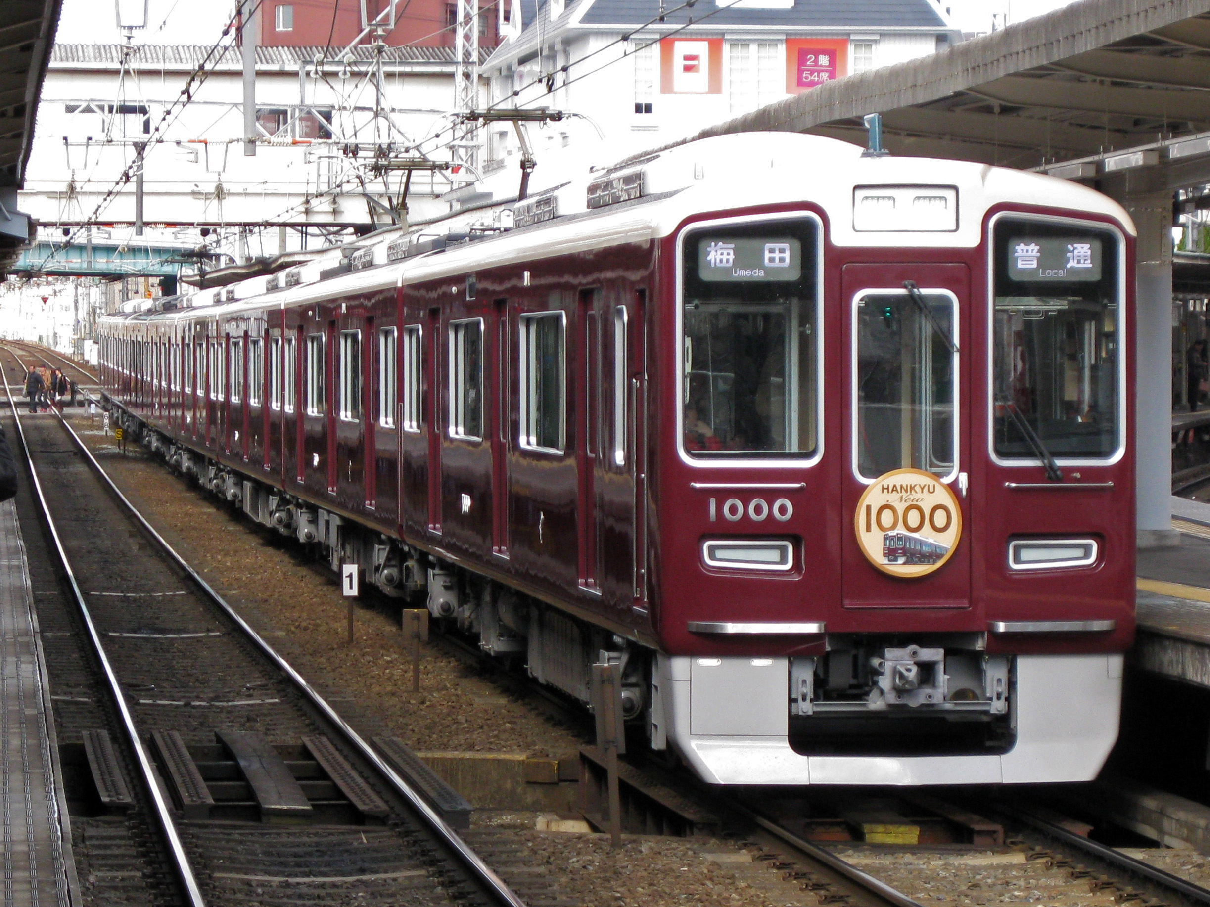 Hankyu 1000 series EMU set 1000 at Juso Station